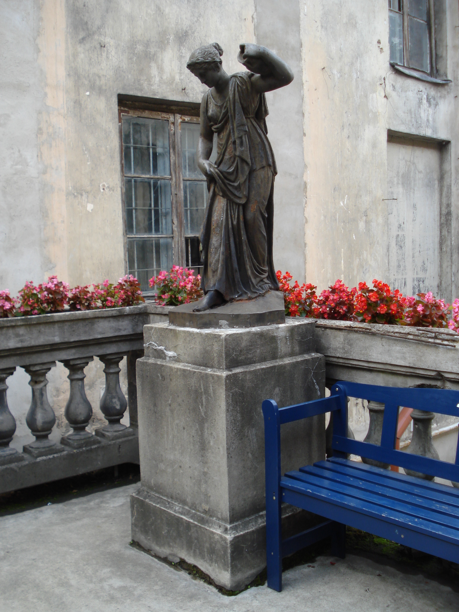 Statue in the Umiasowski Palace (Vilnius)